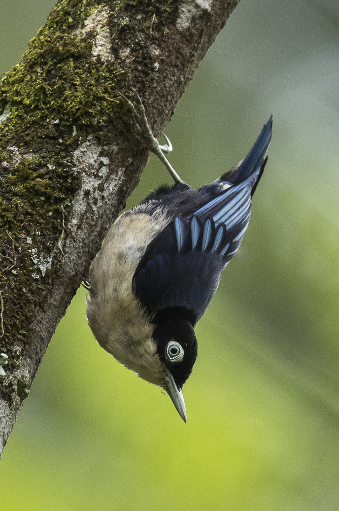 Blue Nuthatch, Sitta azurea, in the Cibodas Botanical Garden, Java, Indonesia.